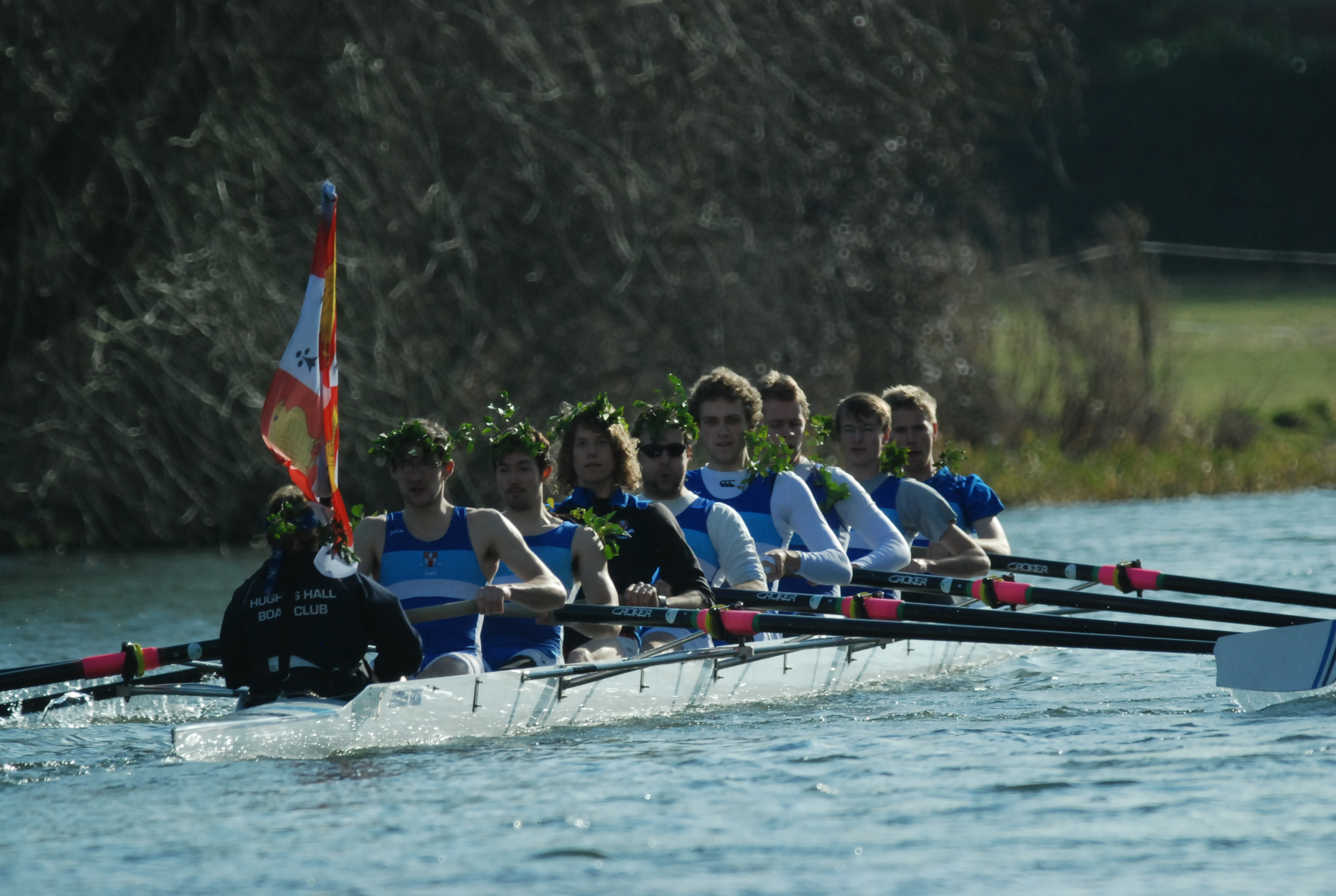 Hughes Hall M1 having won blades, Saturday, Lent bumps 2012.